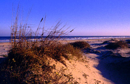 Photos and maps related to Padre Island. Padre Island National Seashore - sand dunes